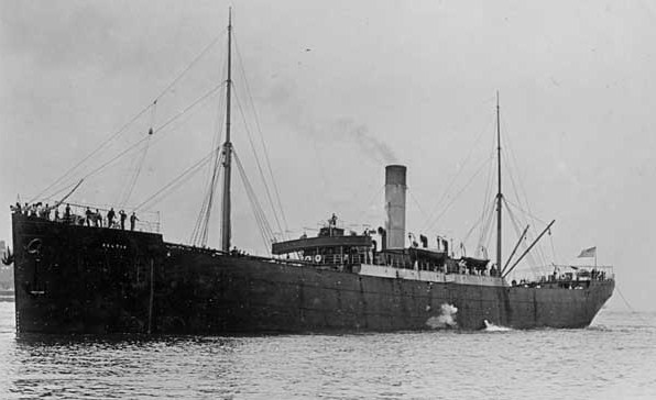 The U.S. Navy stores ship USS Celtic (1898-1923, later AF-2), circa in May 1898.